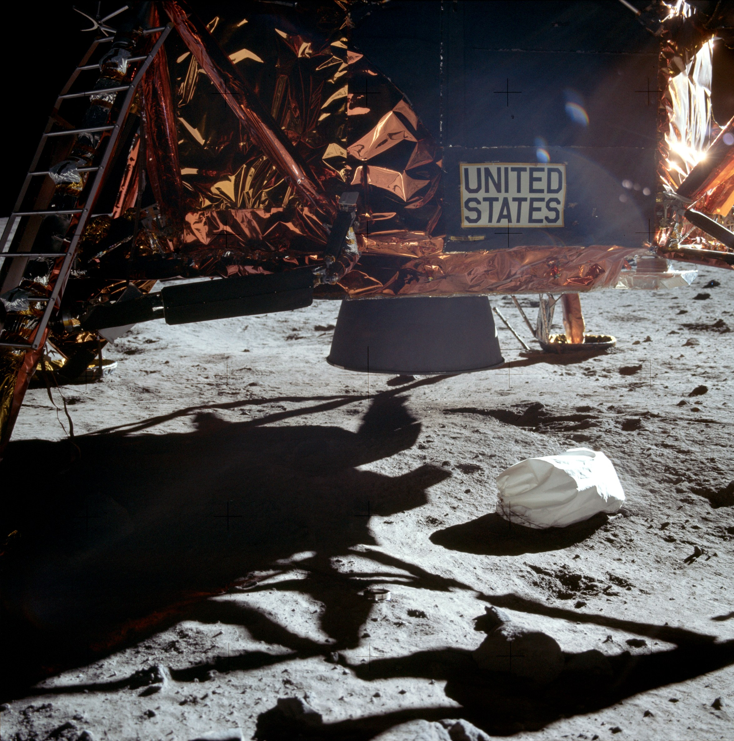 under the Apollo 11 Lunar Module